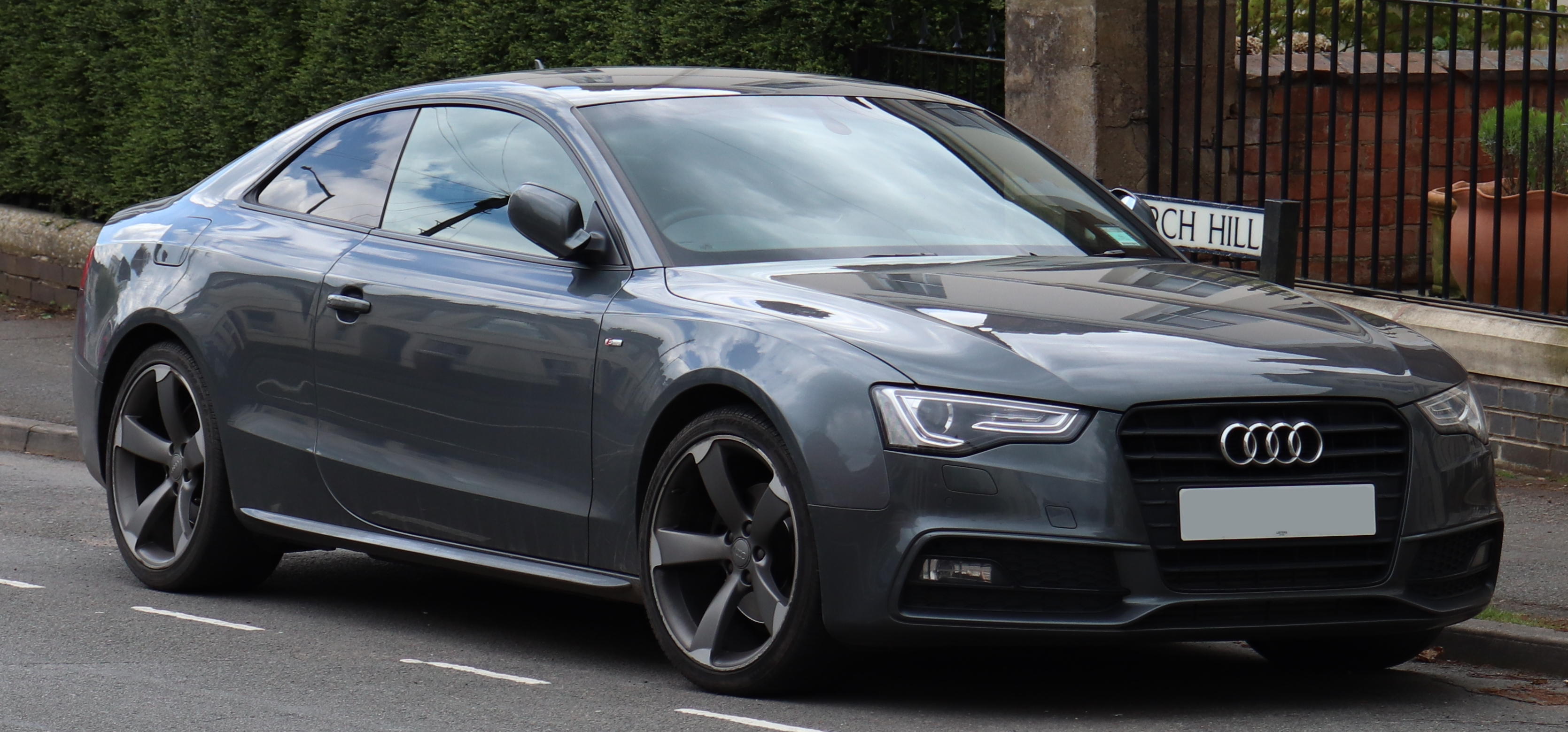 2012 Audi A5 S Line Black Edition 2.0 Front Taken in Leamington Spa